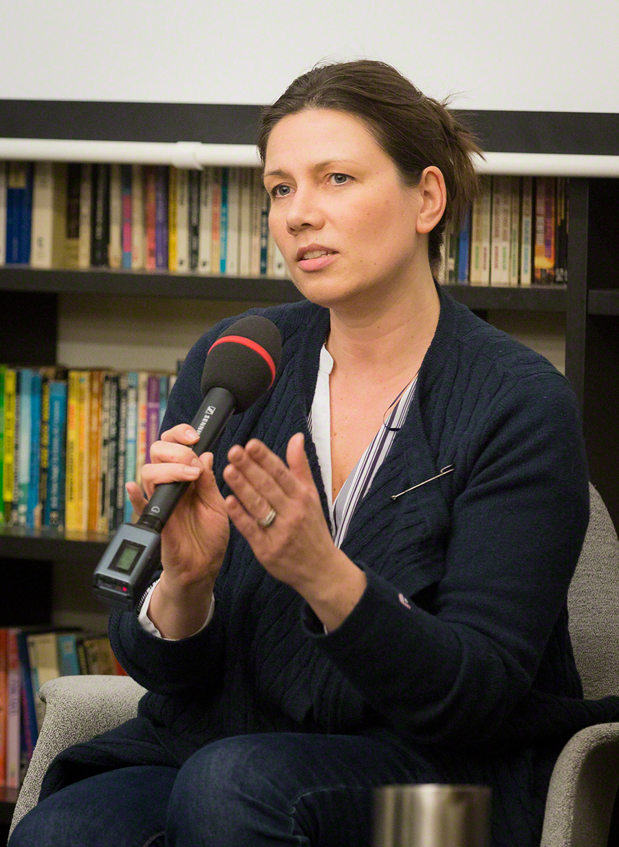 From Wikimedia Norge's celebration of Wikipedia's 15 year birthday 15. January 2016. The event took place on Litteraturhuset in Oslo, Norway. A similar event was held in Trondheim.